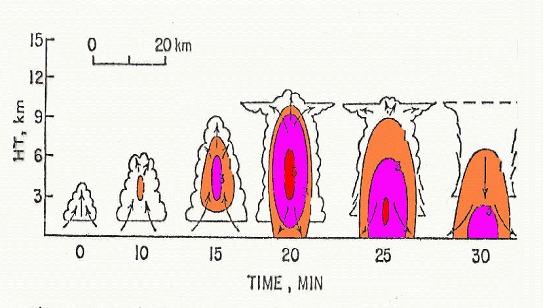 Common thunderstorm development cycle.